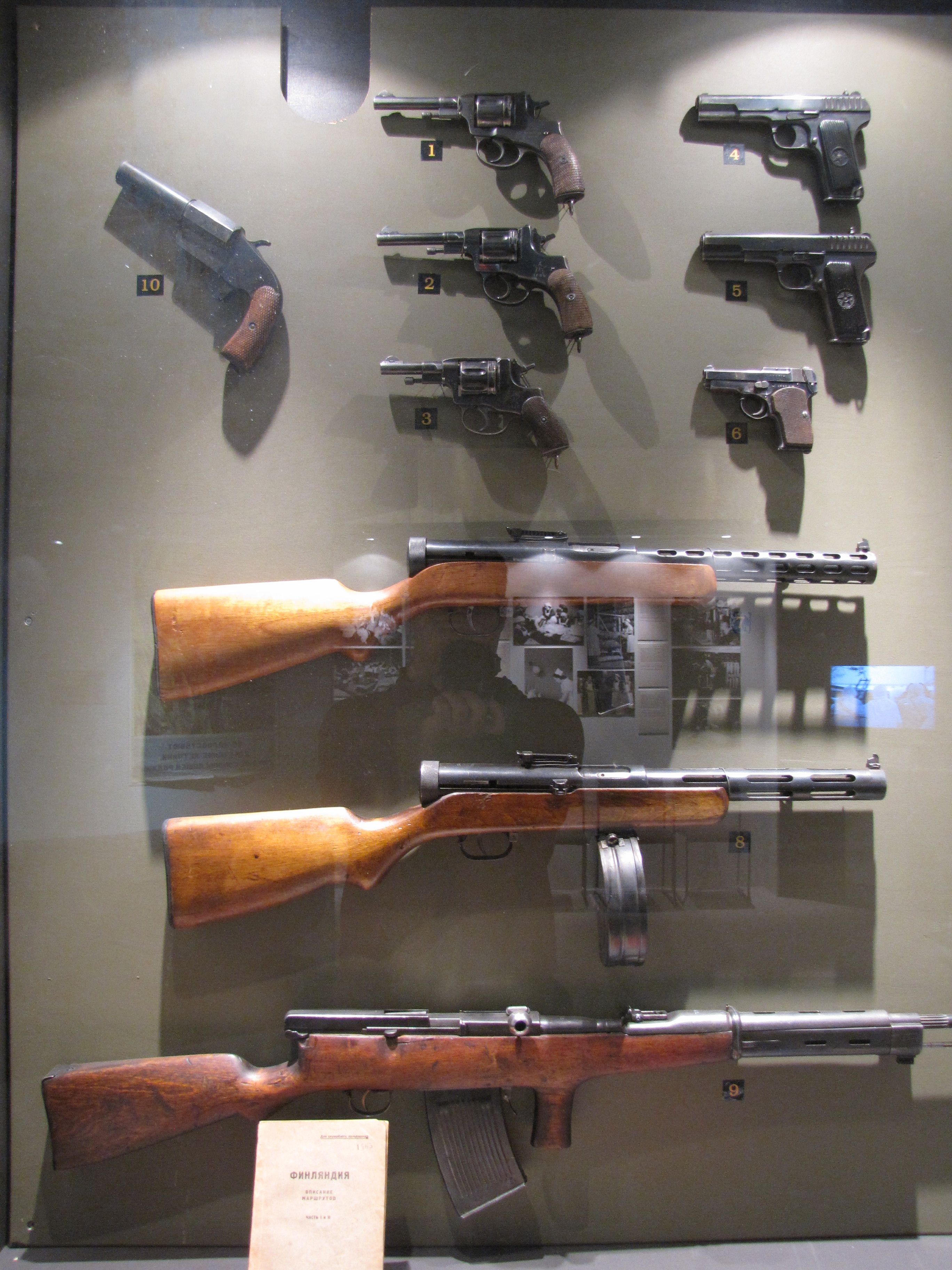 Pistols and automatic weapons used by red army during World War II: 7.62 mm Nagant M1895 revolver, single-action private model, produced 1922. 7.62 mm Nagant M1895 revolver, double-action officer model, produced 1939. 7.62 mm Nagant revolver, shortened special model, double-action, produced 1929. 7.62 mm Tokarev TT-30 pistol, early production model, produced 1935. 7.62 mm Tokarev TT-33 pistol, standard production model, produced 1939. 6.35 mm Korovina pistol. 7.62 mm PPD-34 submachine gun with 25 round box magazine. 7.62 mm PPD-34/38 submachine gun with 70 round drum magazine. 6.5 mm Fedorov Avtomat M/1916 automatic rifle. Flare gun. Photographed in the "Winter War - 70 years" exhibition in the Military Museum of Finland.